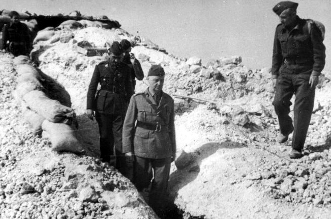 General Sikorski in Tobruk 1941.